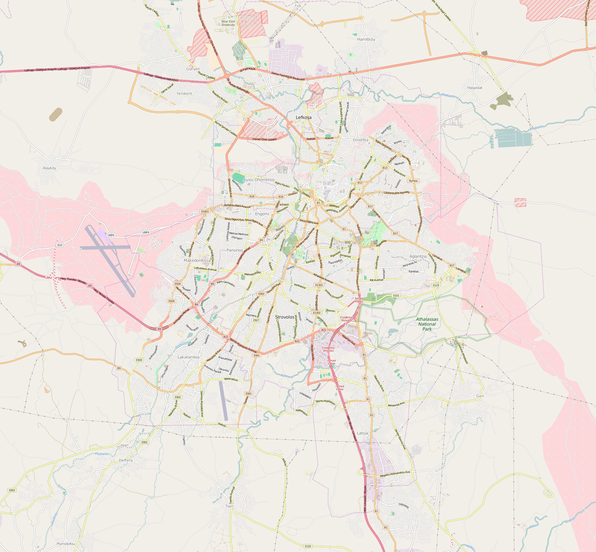 OpenStreetMap - Map of Nicosia